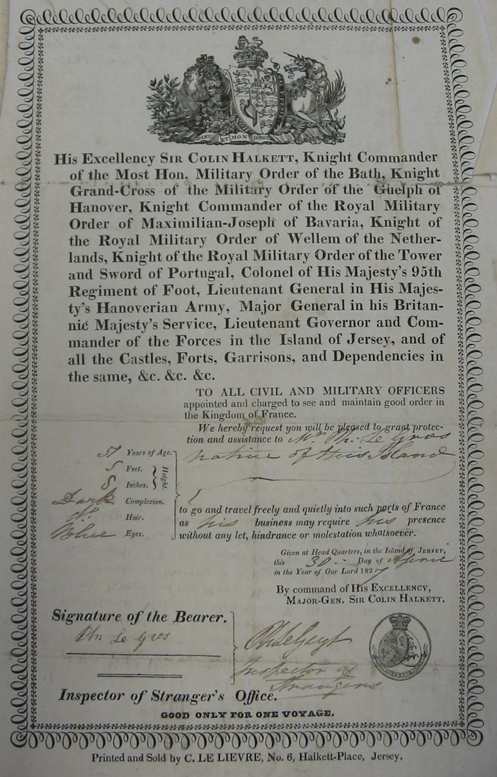 Jersey passport for travel to France, 1827. Issued in the name of Lieutenant Governor Colin Halkett